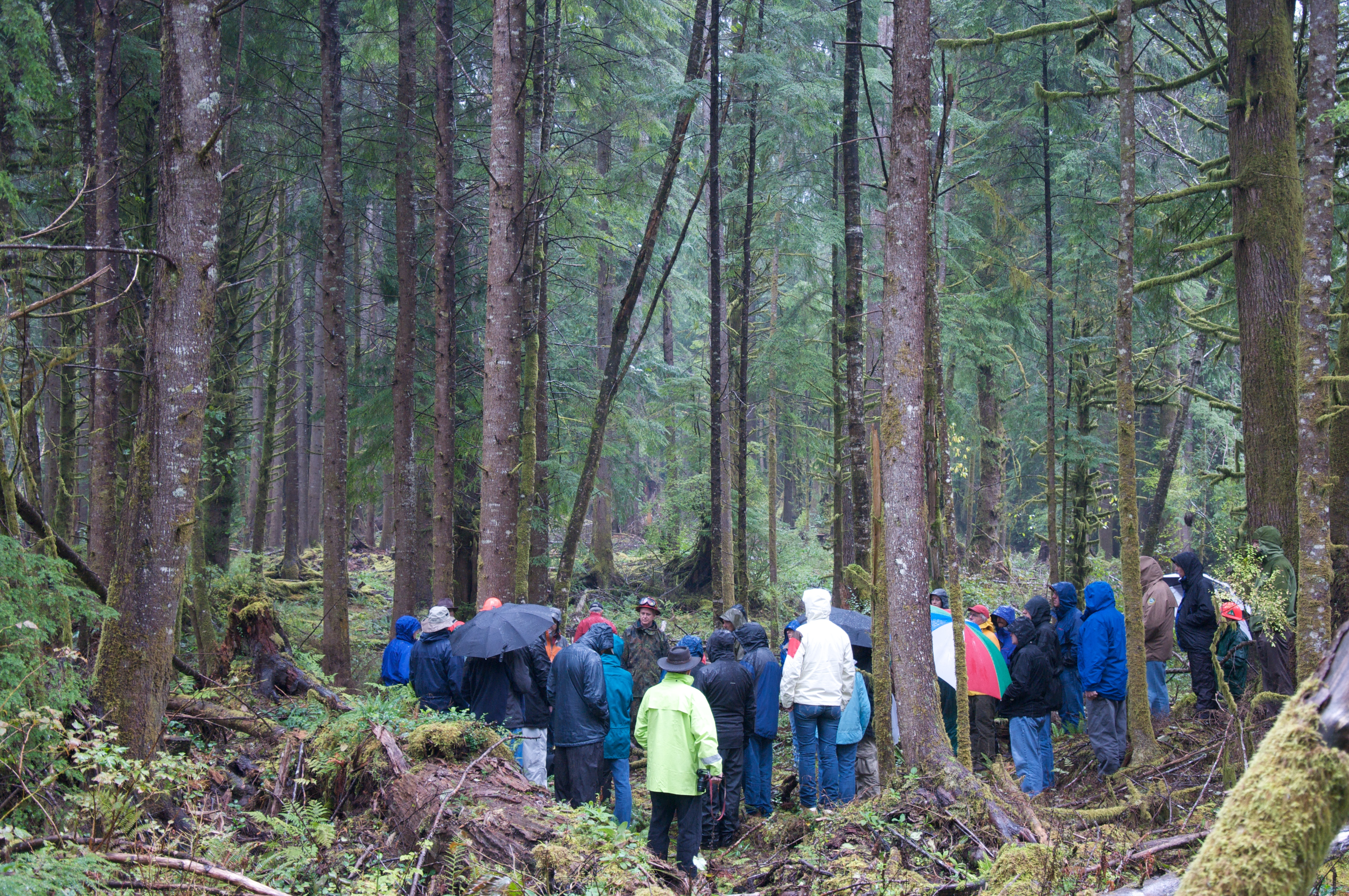 Oregon Board of Forestry tour of forestland near Garibaldi, Oregon